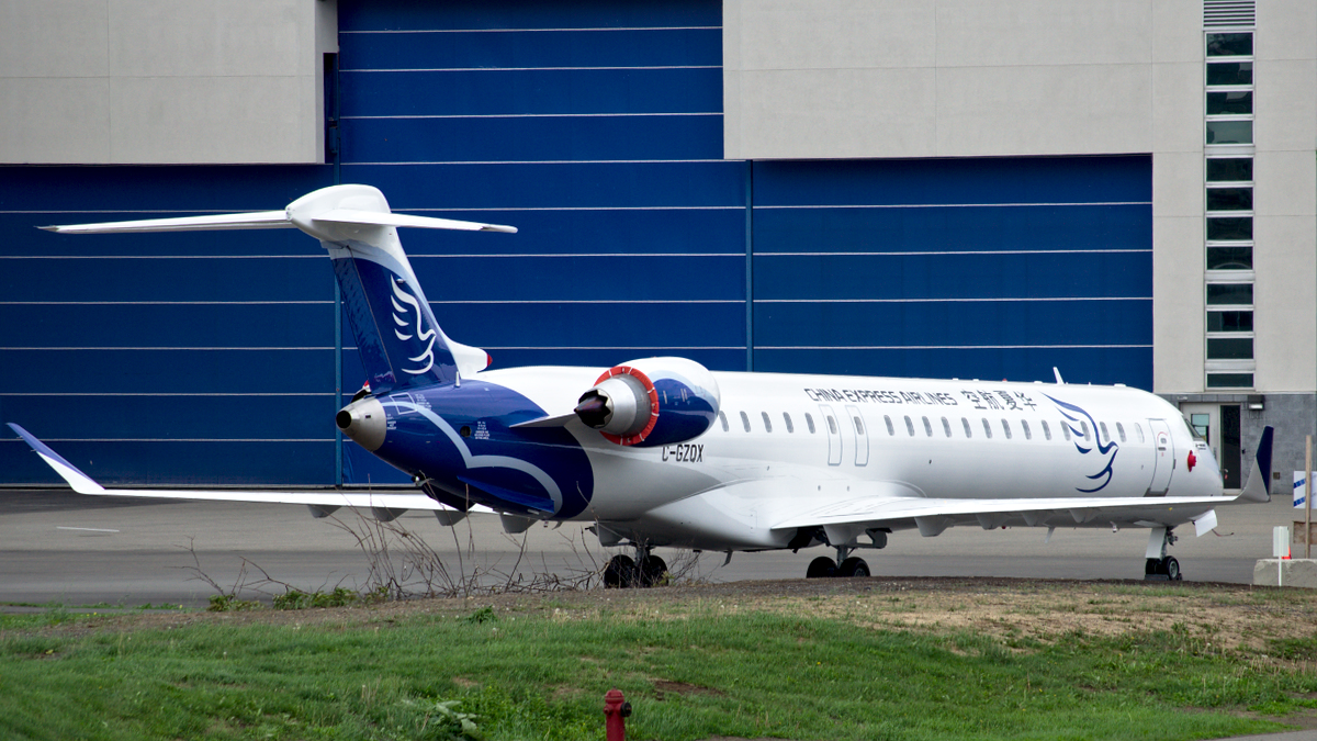 China Express Airlines CRJ900 at the Bombardier plant at Montreal-Mirabel